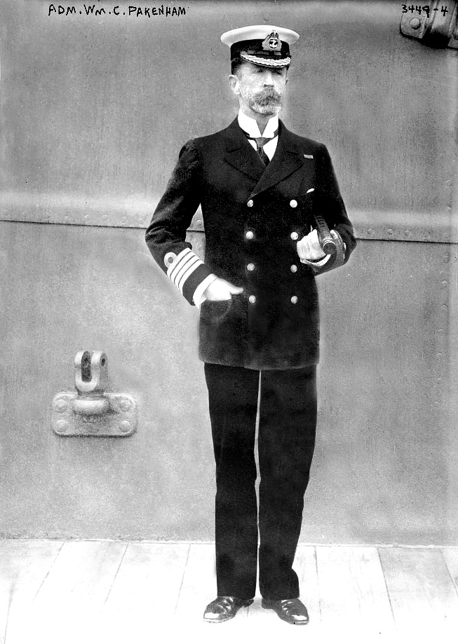 Royal Navy Admiral William C Pakenham